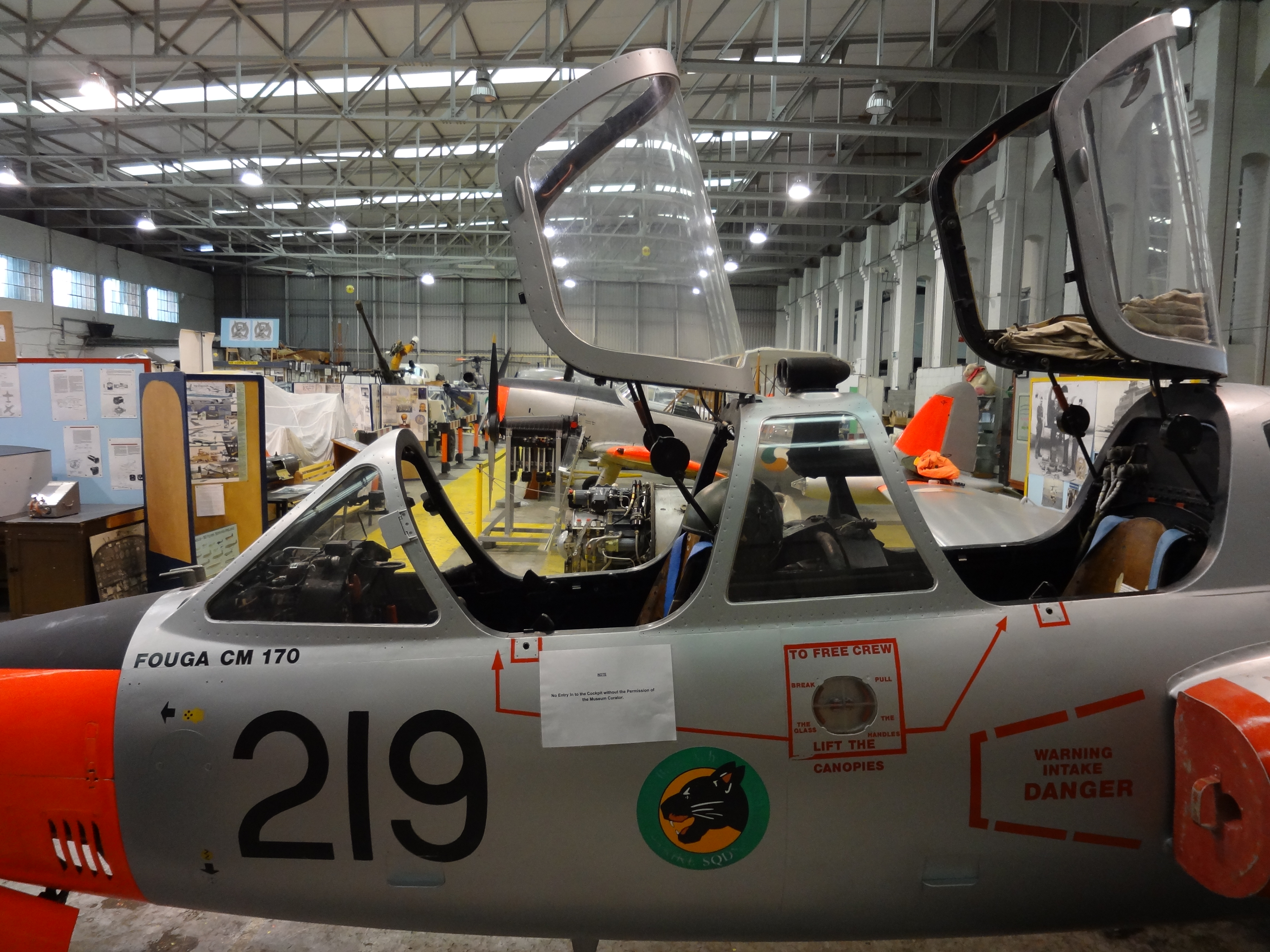 The tandem cockpits of 'Fox 219' and the Light Strike Sqn crest